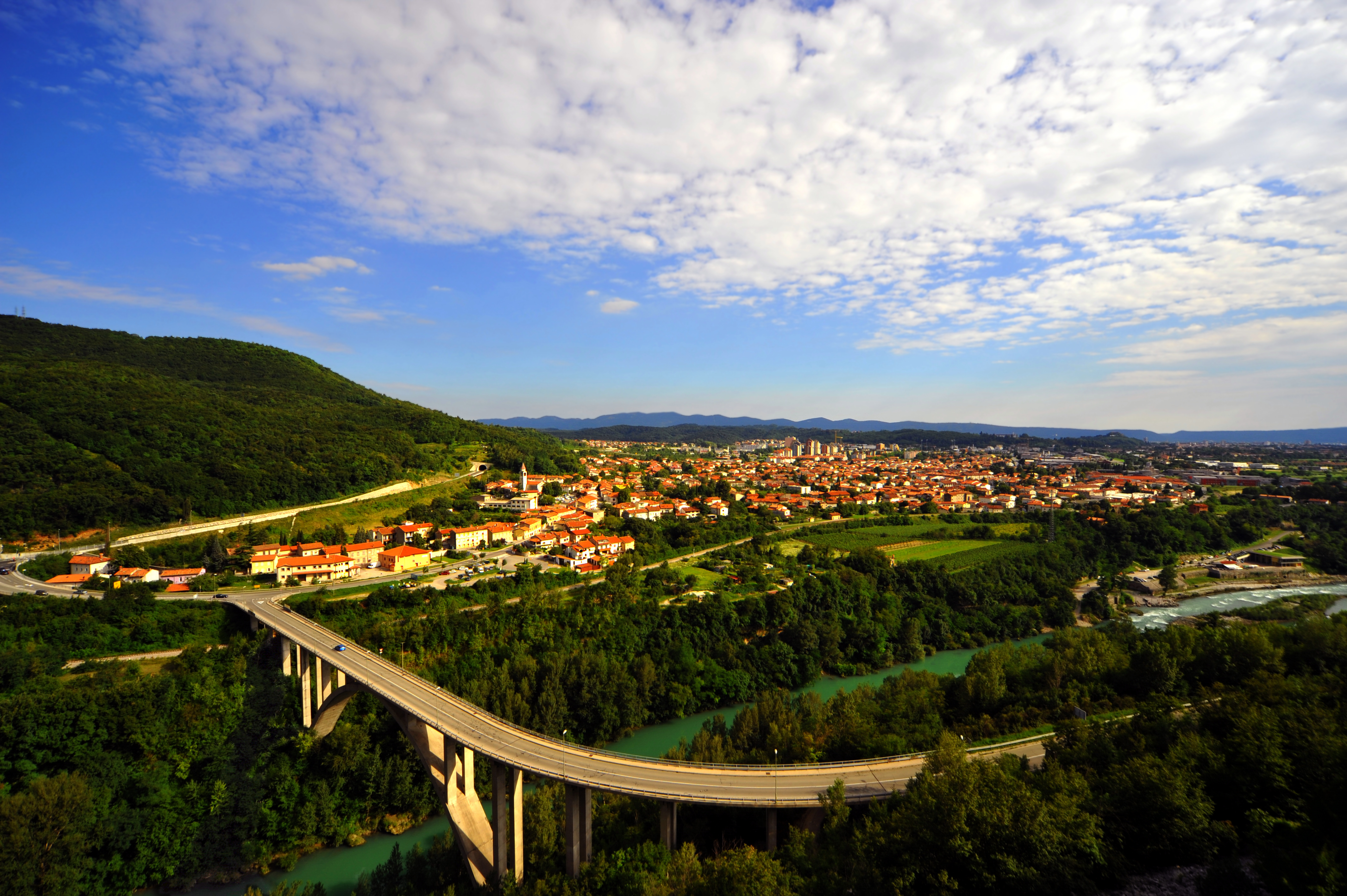 Road bridge across the Isonzo-river at Solcano, in the background Nova Gorica, Slovenia